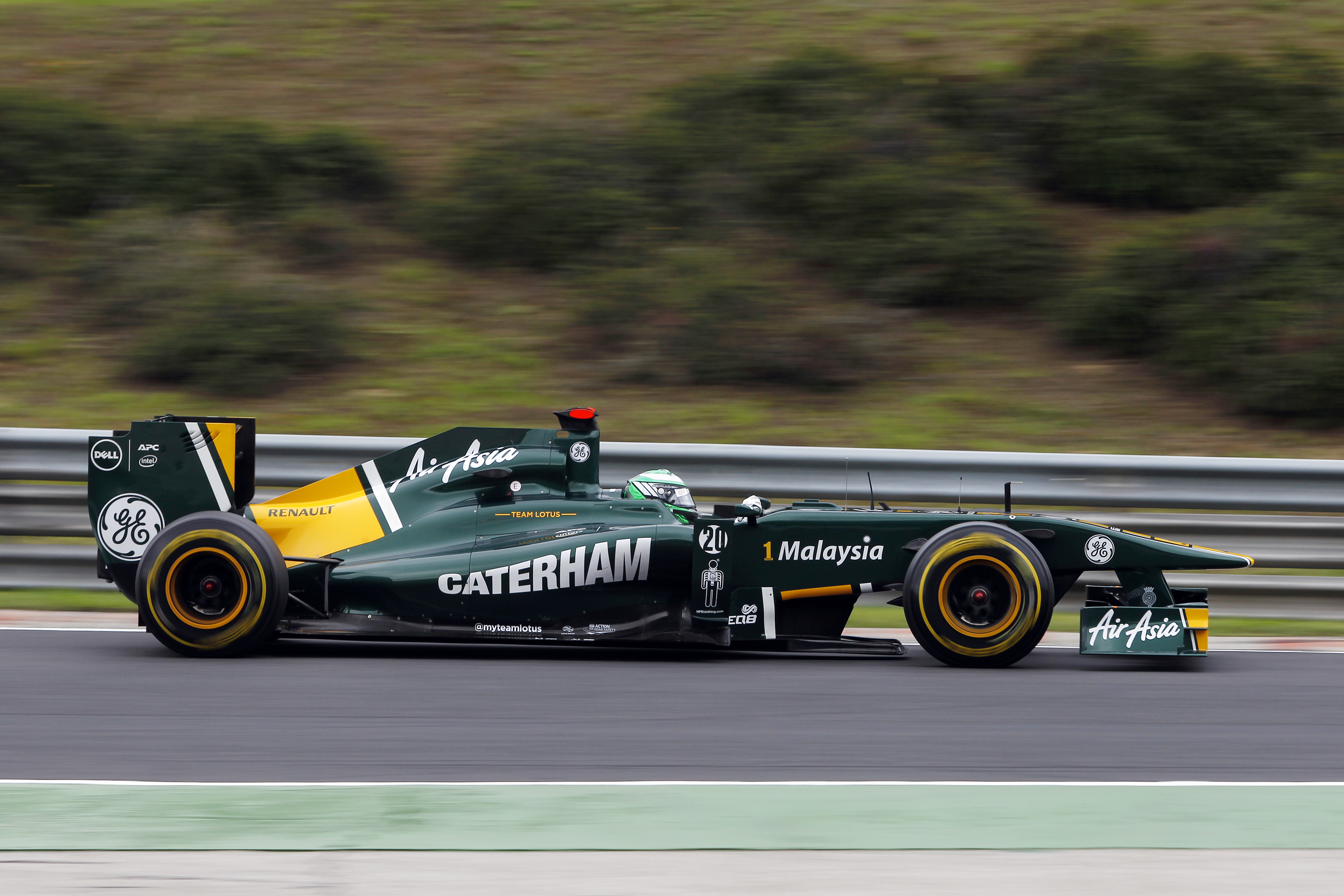 2011 Hungarian Grand Prix - Friday Hungaroring, Budapest, Hungary 29th July 2011 Heikki Kovalainen, Team Lotus Renault T128. World Copyright: Andrew Ferraro/LAT Photographic ref: Digital Image _Q0C1809